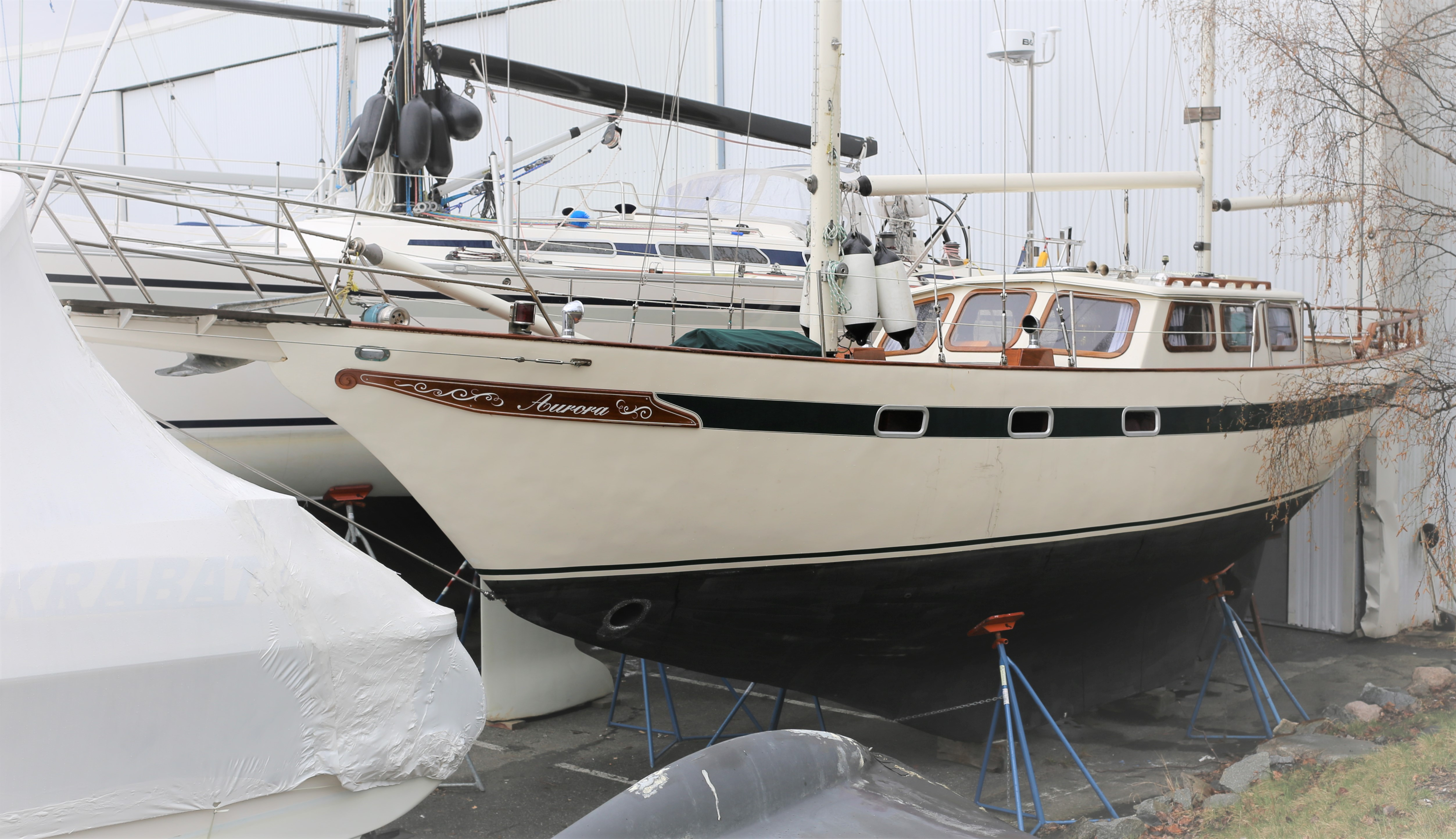 Ferrocement boat builded 2009 in Sweden. Ketch Endurance 35 designed by Peter Ibold